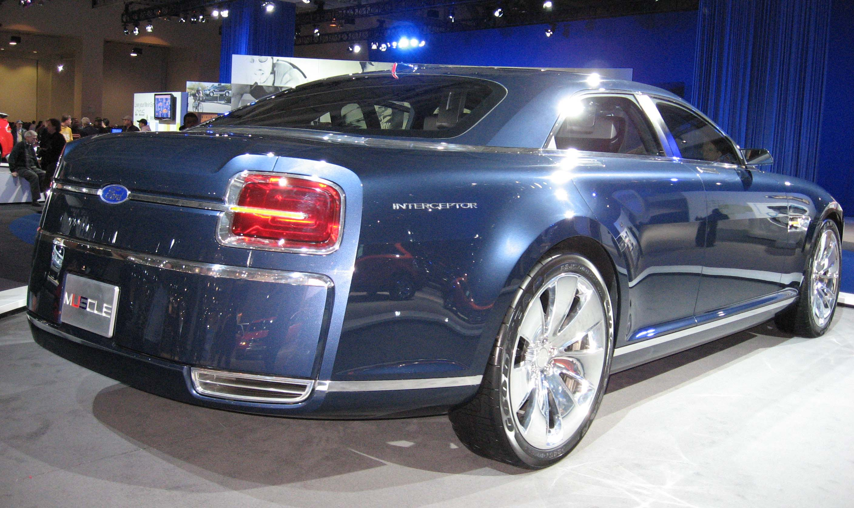 Ford Interceptor photographed at the Washington Auto Show.